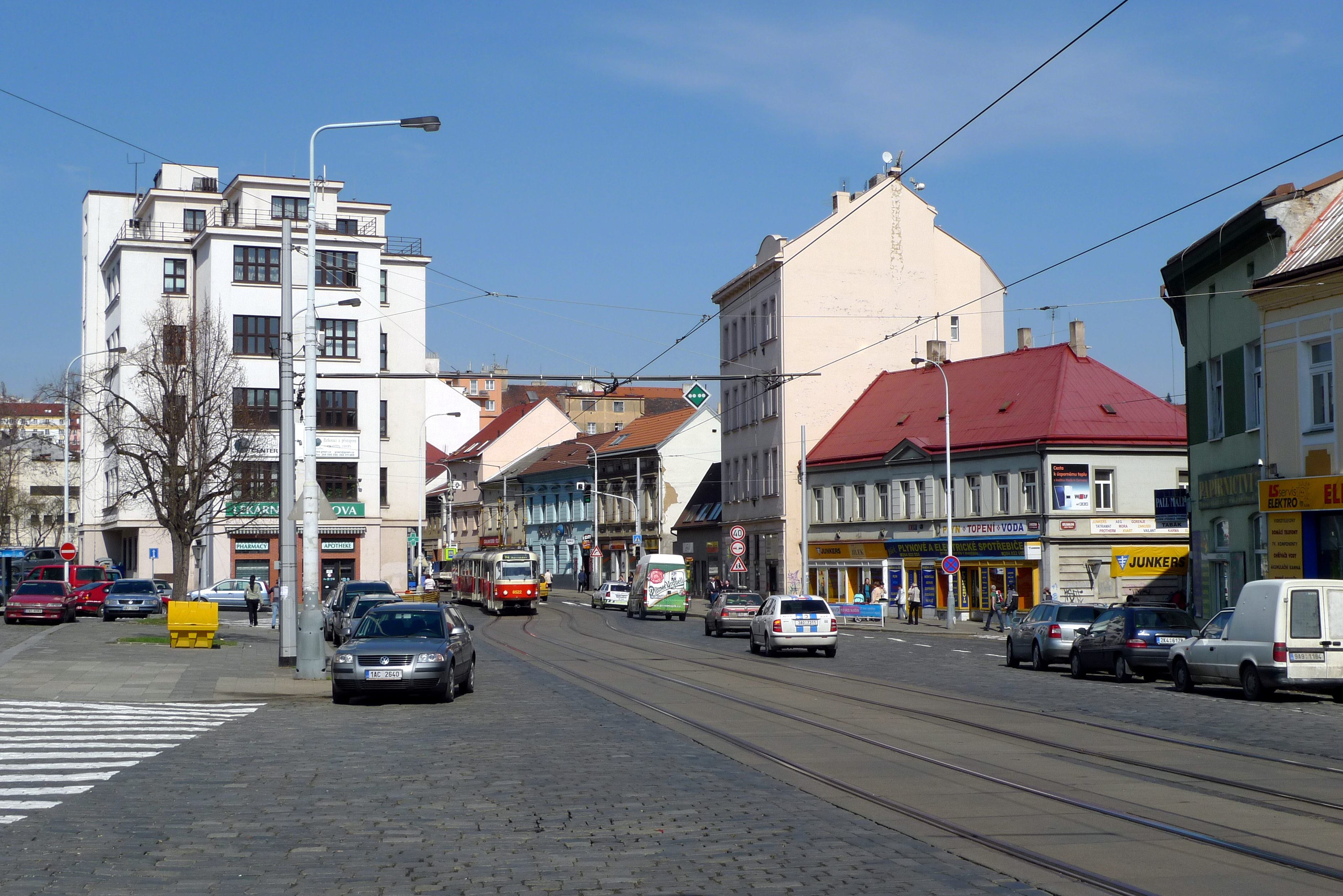 Dolní Libeň in Prague 8, Czech Republic - crossing Zenklova x Stejskalova Česky: Křižovatka U Meteoru × Zenklova x Stejskalova v Dolní Libni v Praze 8